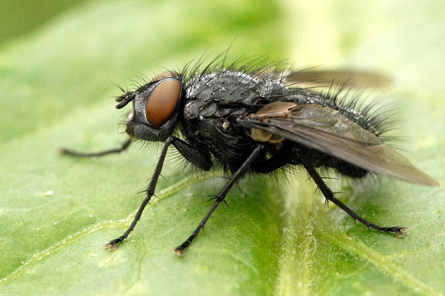 Epicampocera succincta from Commanster, Belgian High Ardennes .